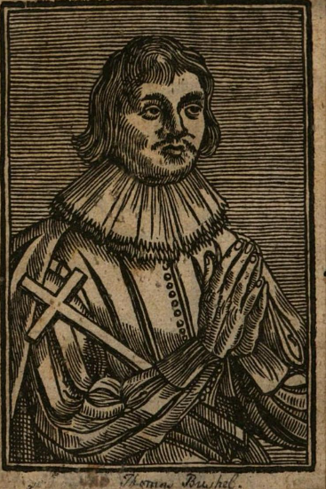 Thomas Bushell, English mining engineer and vegetarian.